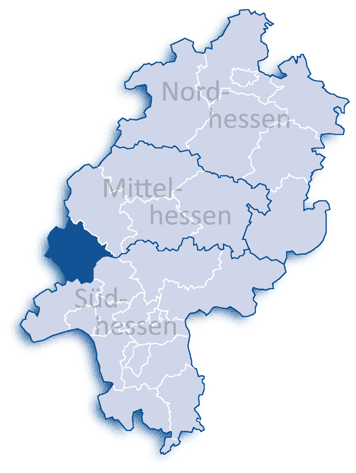 The map shows the district Limburg-Weilburg. A district in Hesse